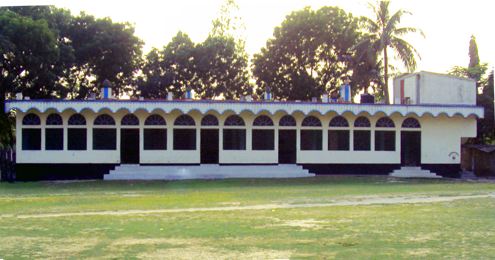 Photograph of Mohimaganj Mosque built by Ahmed Hossain in 1945